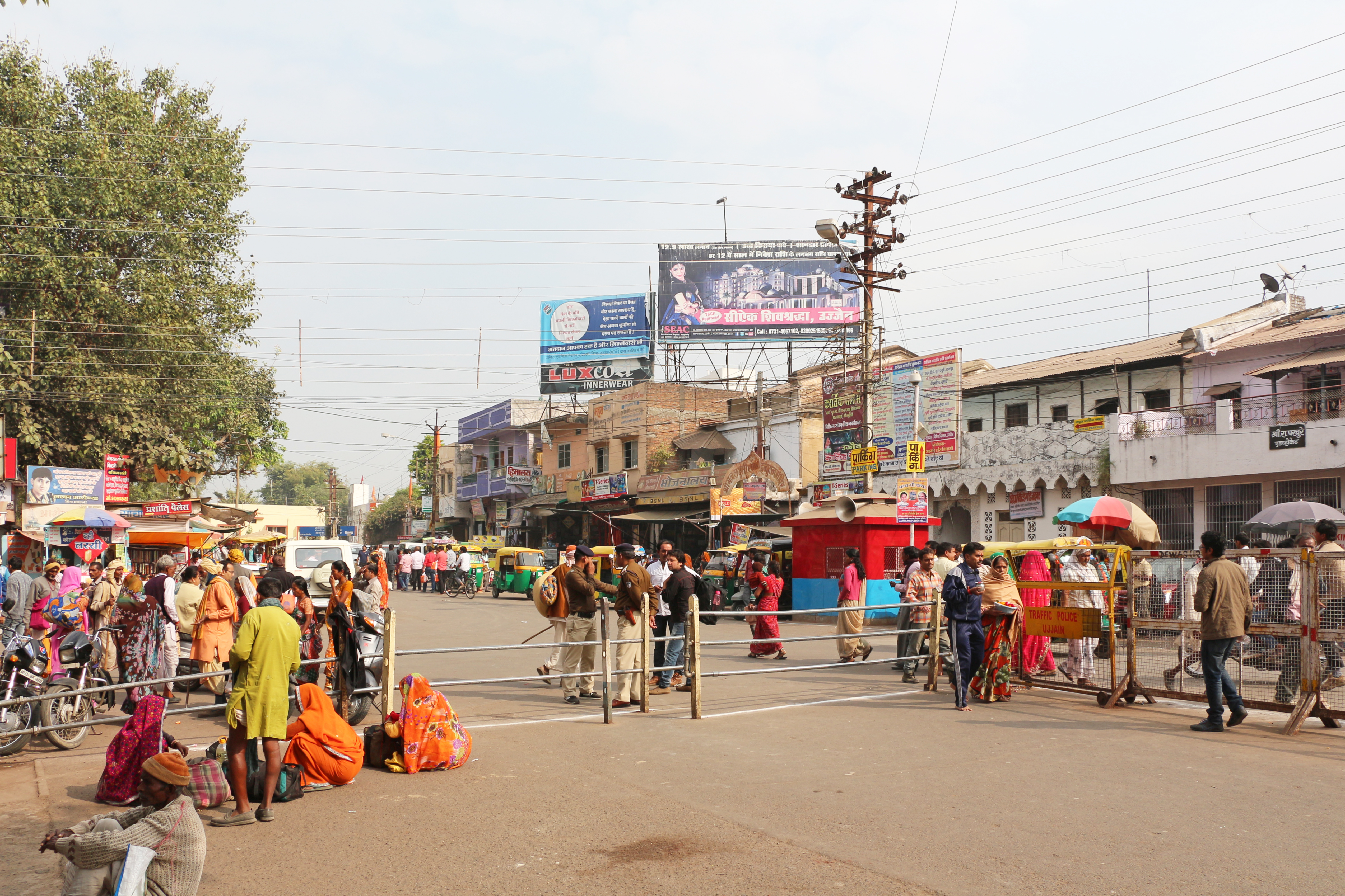 Ujjain, in front of the Mahakaleshwar Temple, India